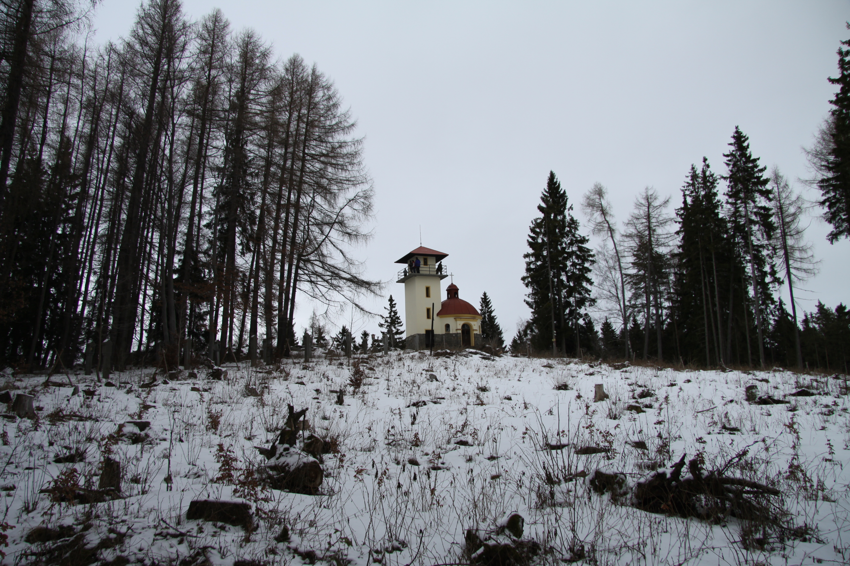 Observation tower Mařský vrch, Prachatice District, Czech Republic